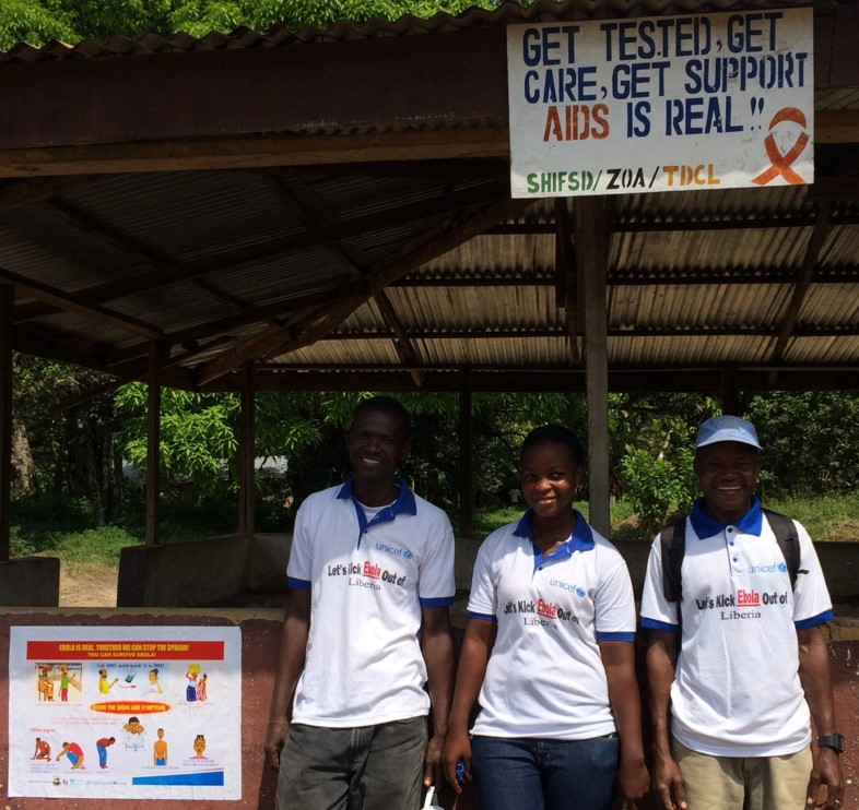 Community volunteers provide Ebola Virus Disease social mobilization messaging at a HIV testing station in Bong County, Liberia, November 20, 2014. Submitted by Williams Seymour – South Africa.